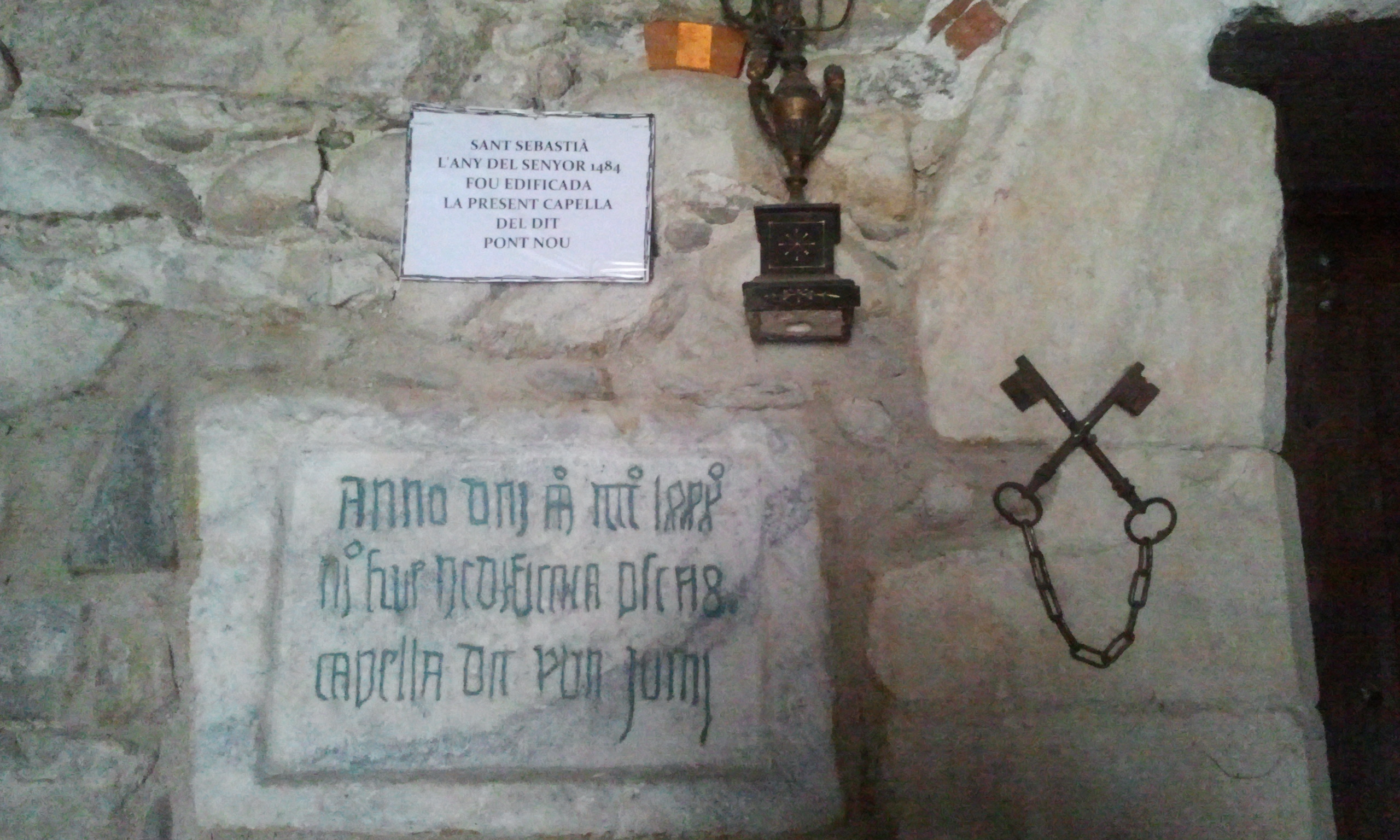 Inscription next to the door of El Palau's chapel